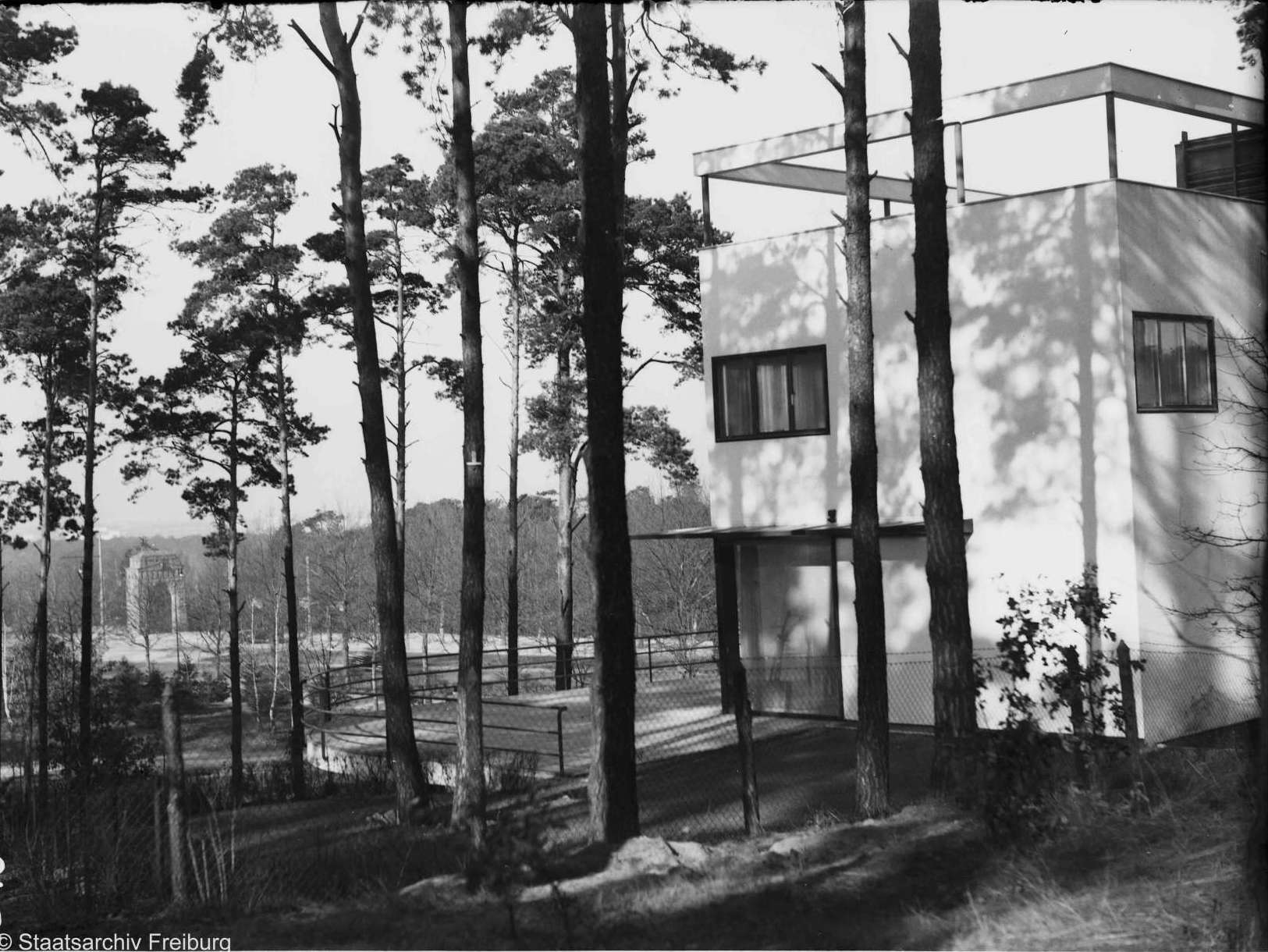 View towards the lake of ”Stößensee” at “Haus am Rupenhorn” or “Villa Luckhardt” in Berlin’s Westend-area.